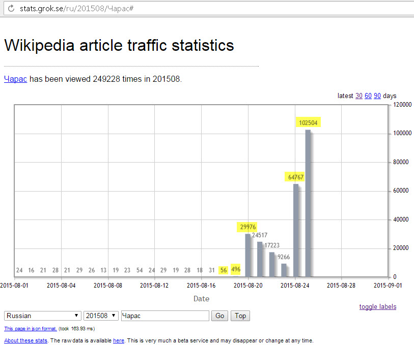 "Charas" article traffic ststistics in Russian Wikipedia at the 2015-08-25; highlighted traffic before publication about block desigion, after publication, before blocking and after blocking revocation.